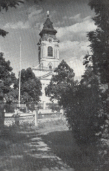 The tower of the Church of Szentgotthárd